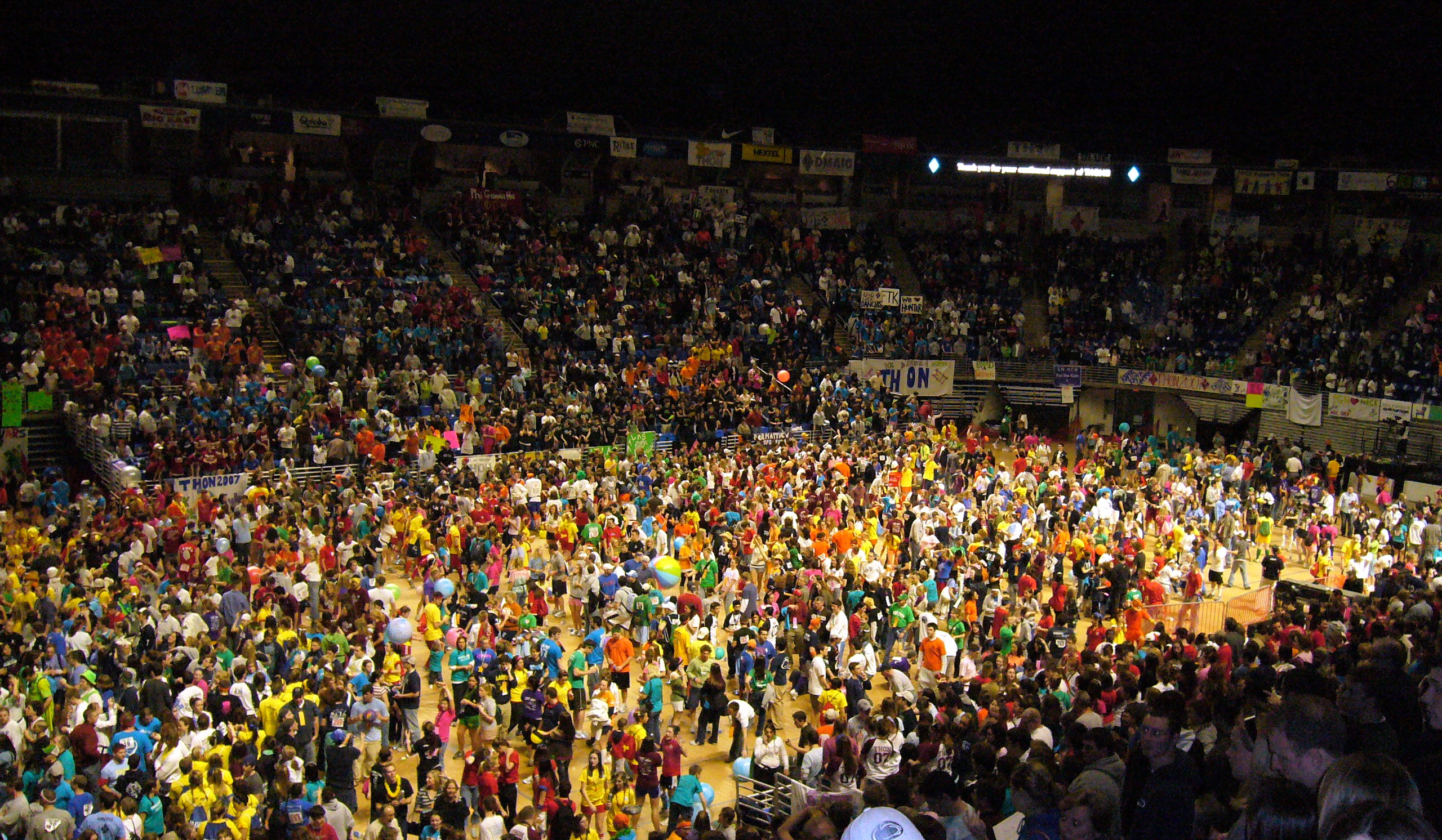 Photo taken during the pep rally held during the 2007 Penn State Dance Marathon in the Bryce Jordan Center, University Park, PA.